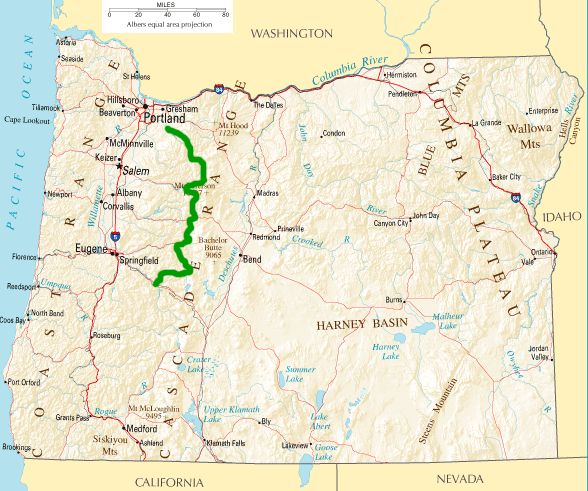 West Cascades Scenic Byway in Oregon. Route shown in green. © 2004 Matthew Trump based on :Image:National-atlas-oregon.png